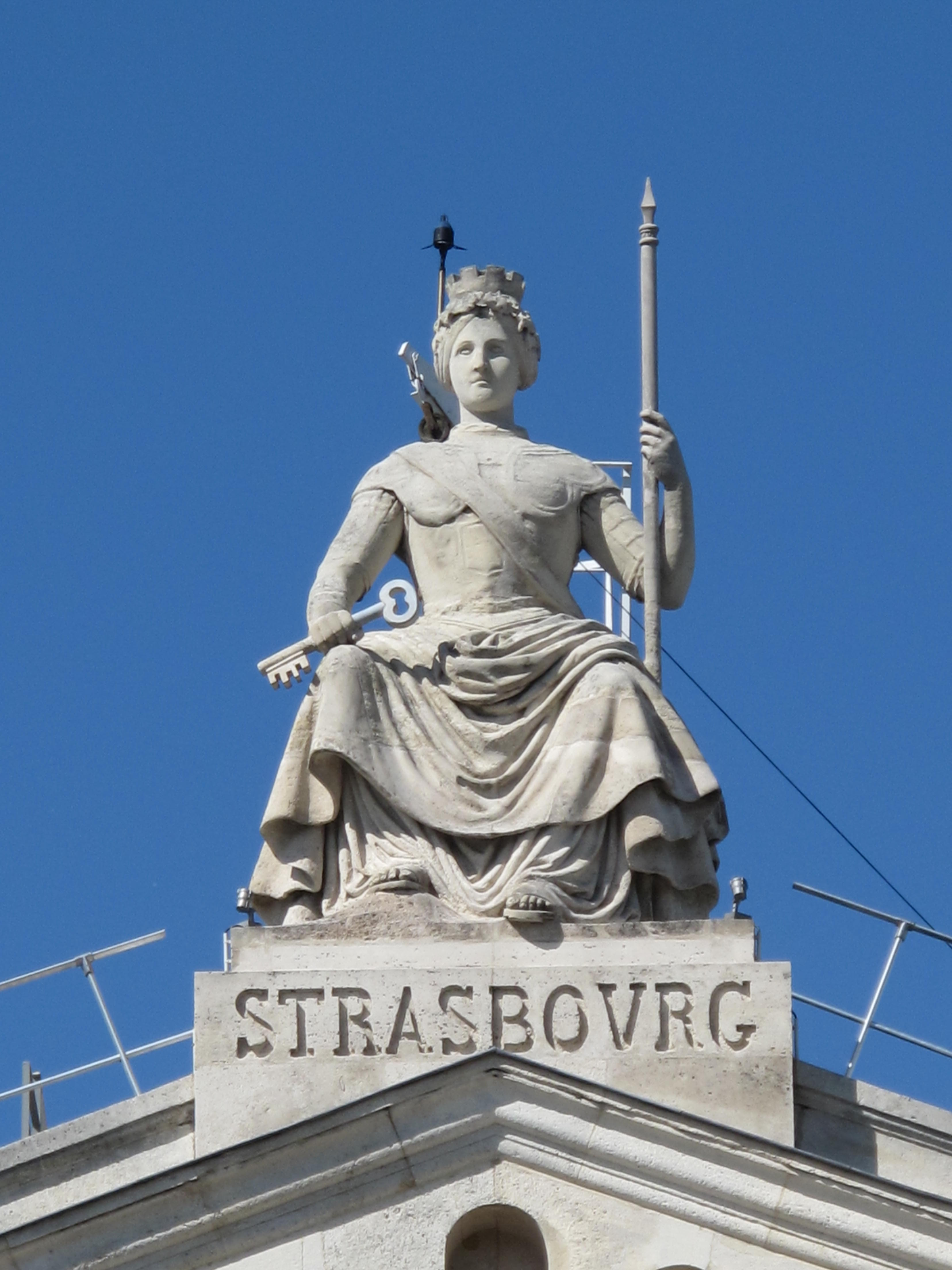 Statue of the town of Strasbourg at the top of the main lines entrance of gare de l'Est, Paris